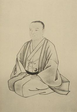 Portrait of Maeno Ryotaku (Maeno Ranka)